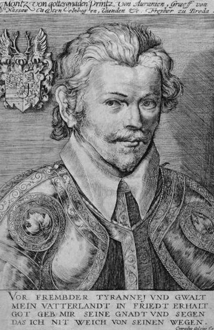 Maurice of Nassau at a youthful age engraving 21.4 x 15.2 cm